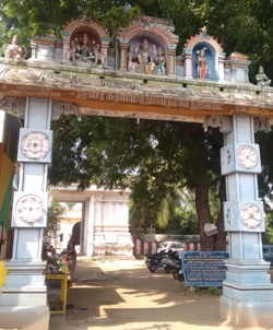 Thanjavur Veeranarasimhaperumaltemple தஞ்சாவூர் வீரநரசிம்மப்பெருமாள்கோயில்